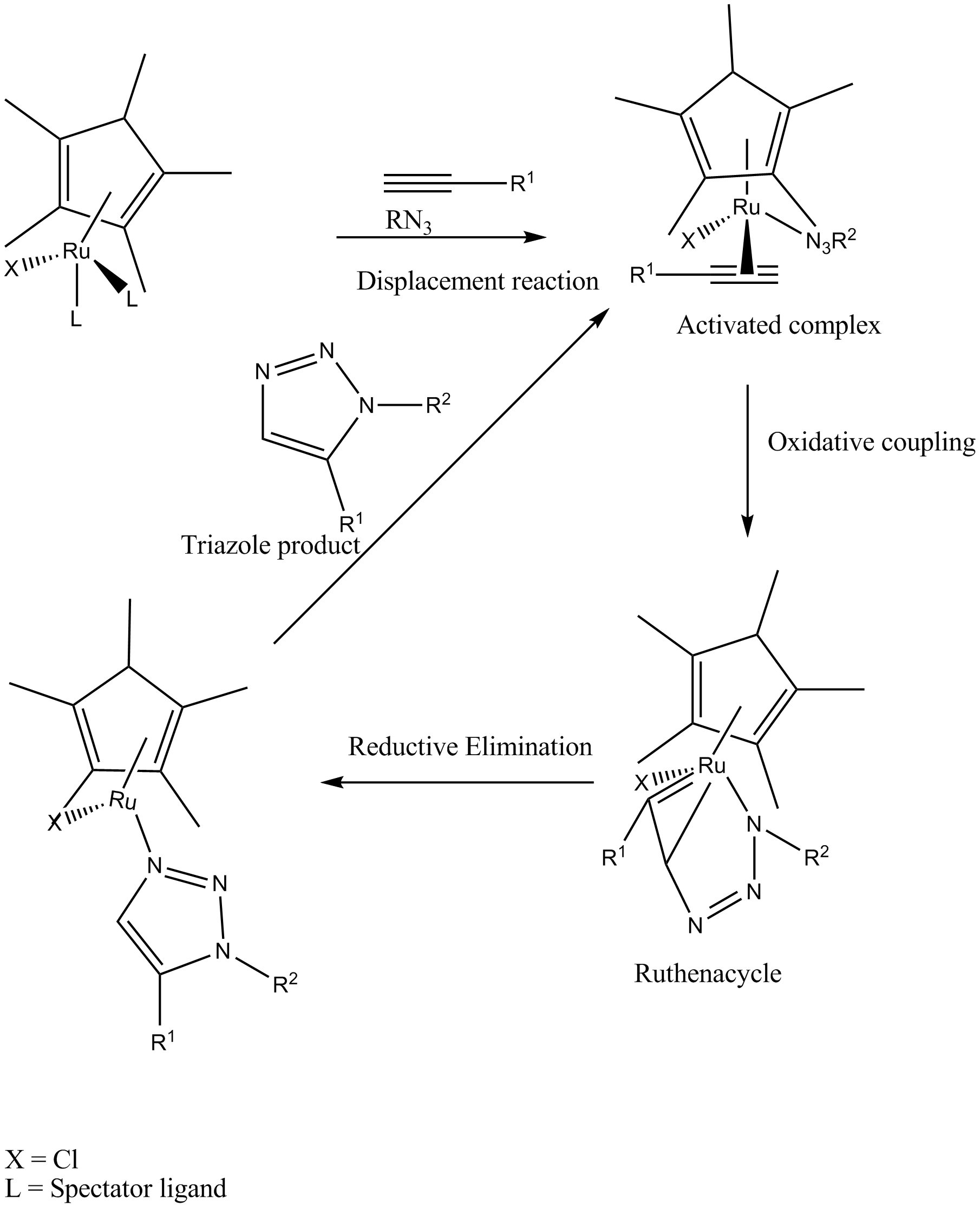 Ruthenium catalysed click chemistry